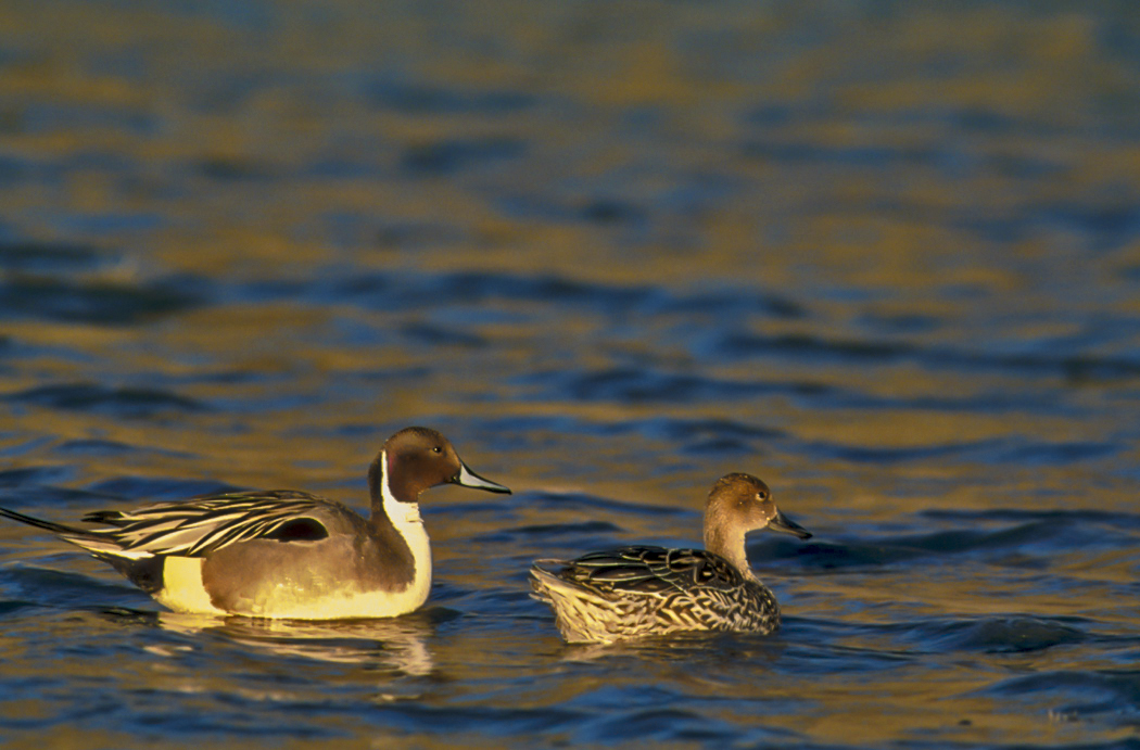 Northern pintail (Anas acuta) mated pair, photographed in the Tule Lake National Wildlife Refuge